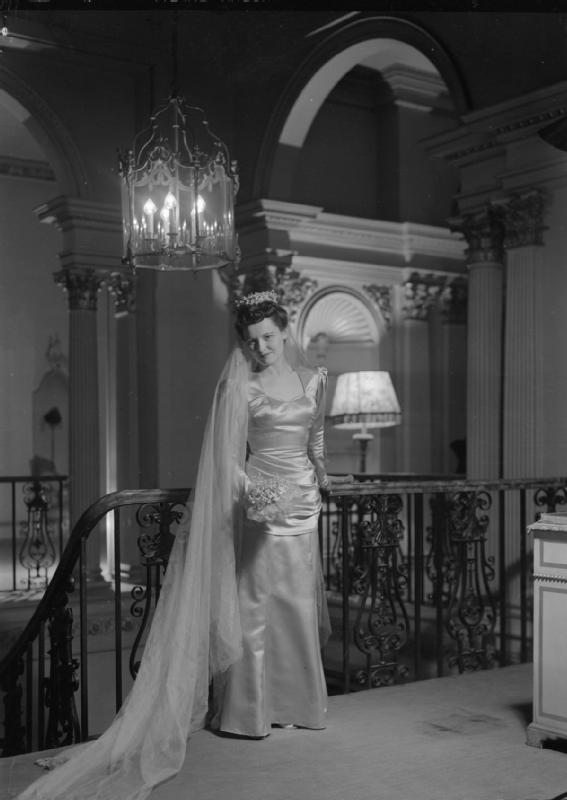 London Fashion Designers- the work of Members of the Incorporated Society of London Fashion Designers, London, England, UK, 1945 Actress Peggy Bryan models the wedding dress designed for her by fashion designer Bianca Mosca. The dress is to be worn by Peggy in the new British horror film 'Dead of Night'.